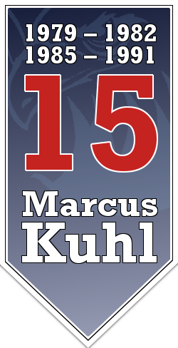 Banner in honour of Marcus Kuhl (No. 15 of the Adler Mannheim) at the SAP-Arena, uses the GFDL picture Image:Mannheim-Adler-Logo.jpg